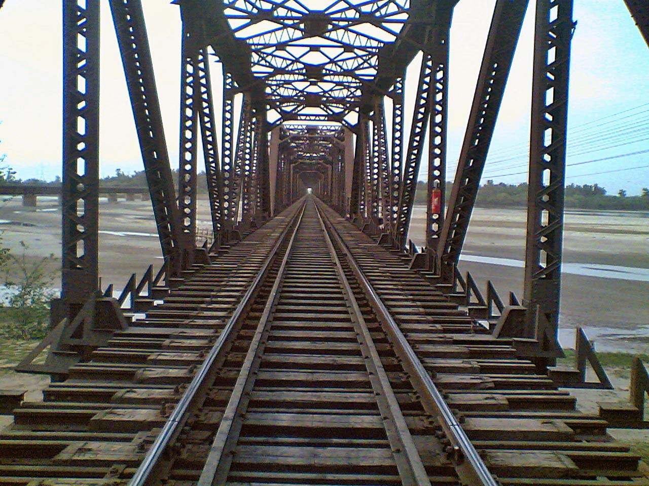 The Chenab river Railway bridge in Gujrat, Pakistan.